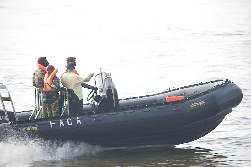 Military Ensuring Safety